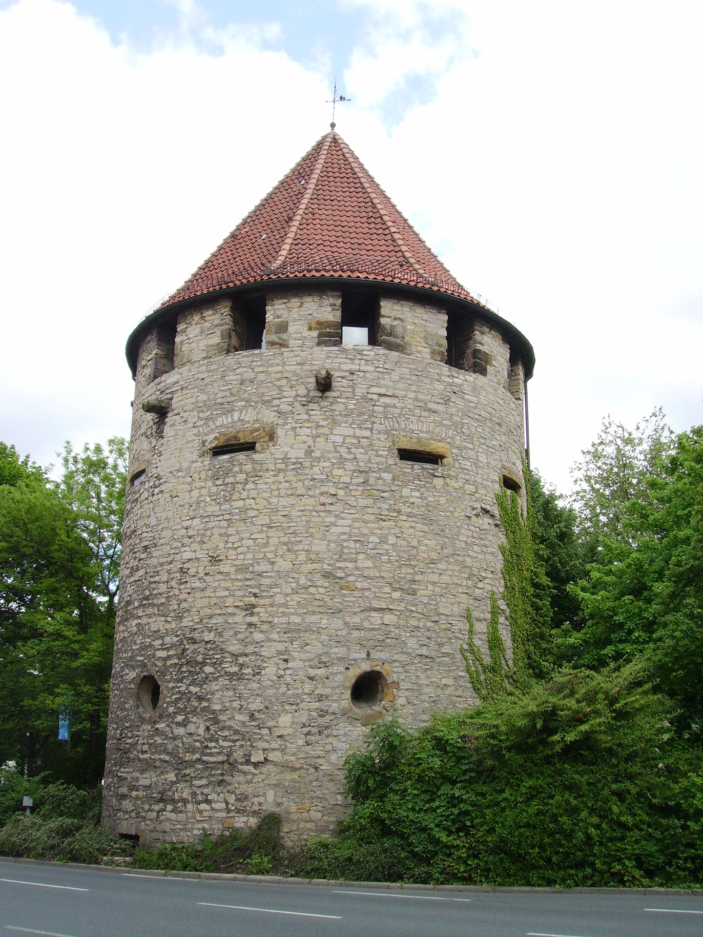 A tower called "Bürgergehorsam" in Osnabrück